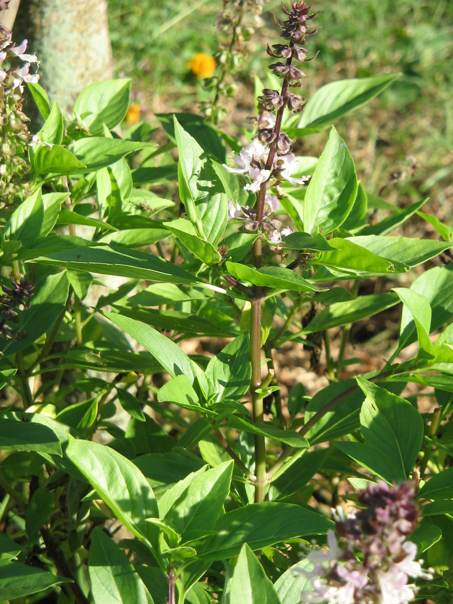 Ocimum tenuiflorum